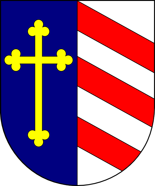 Coat of arms of Jan Ondřej Kaiser, bishop of Hradec Králové, Czech Republic (1775 - 1776).